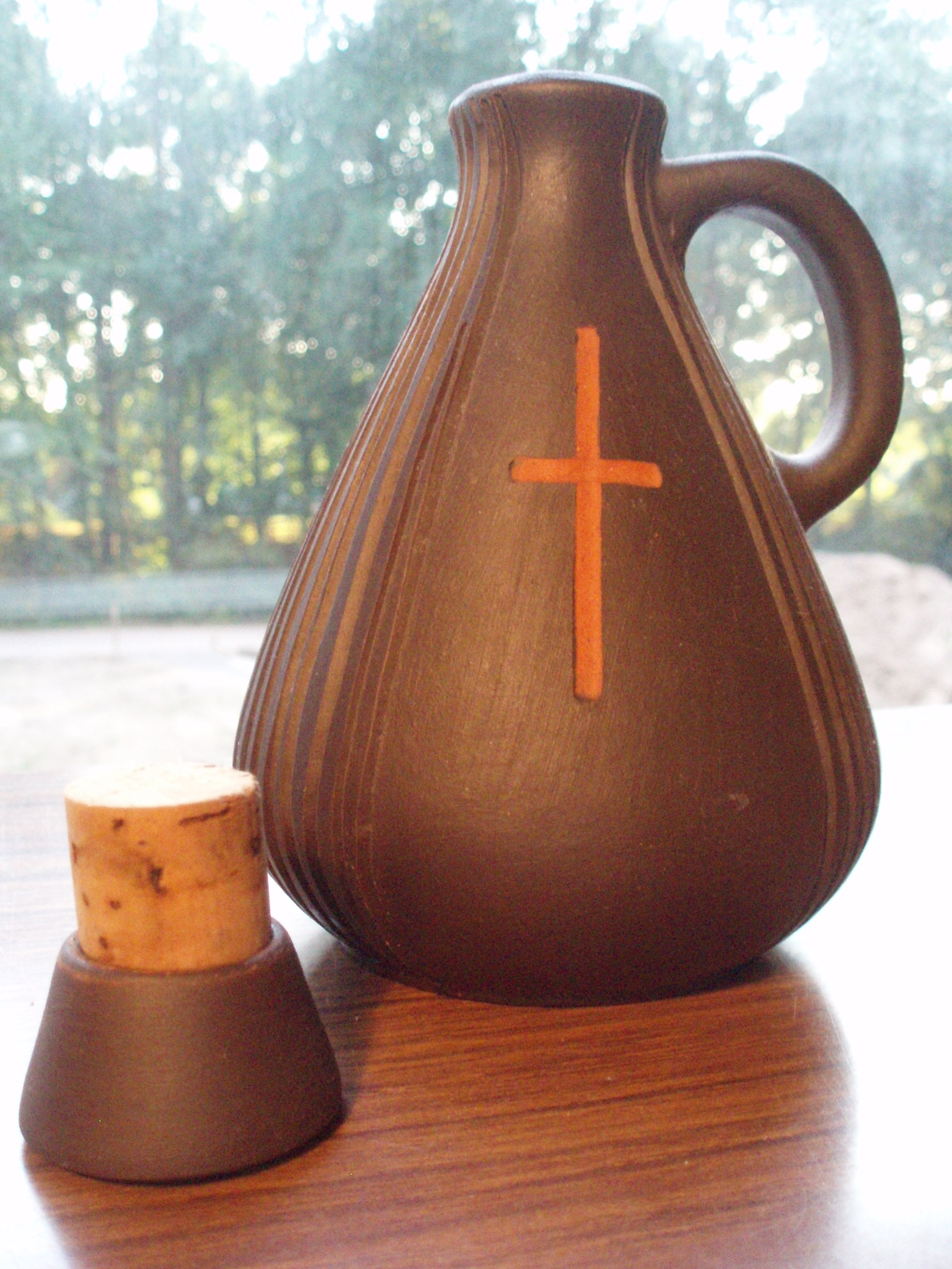 Jug, used to carry Holy Water home and storage, cork as stopper next to it.